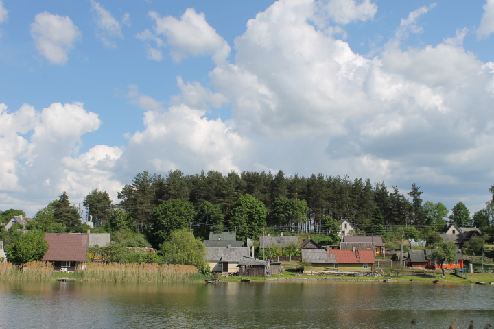 Veisiejai Jewish Cemetery, Lithuania